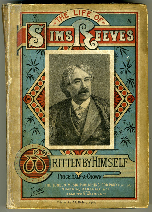 Pictorial Cover of Sims Reeves's autobiography